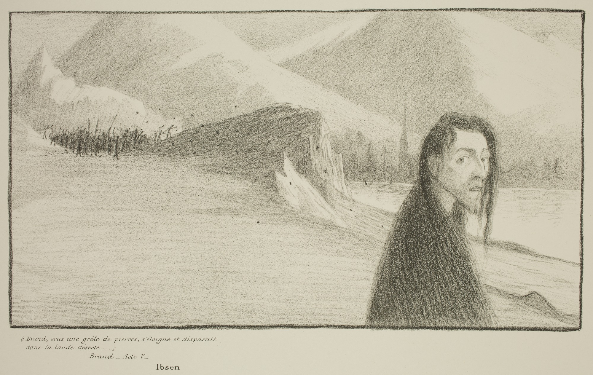 Poster for Henrik Ibsen's Brand, featuring a lithograph by Maurice Dumont. The program for the June 1895 production was created by Josef Sattler.